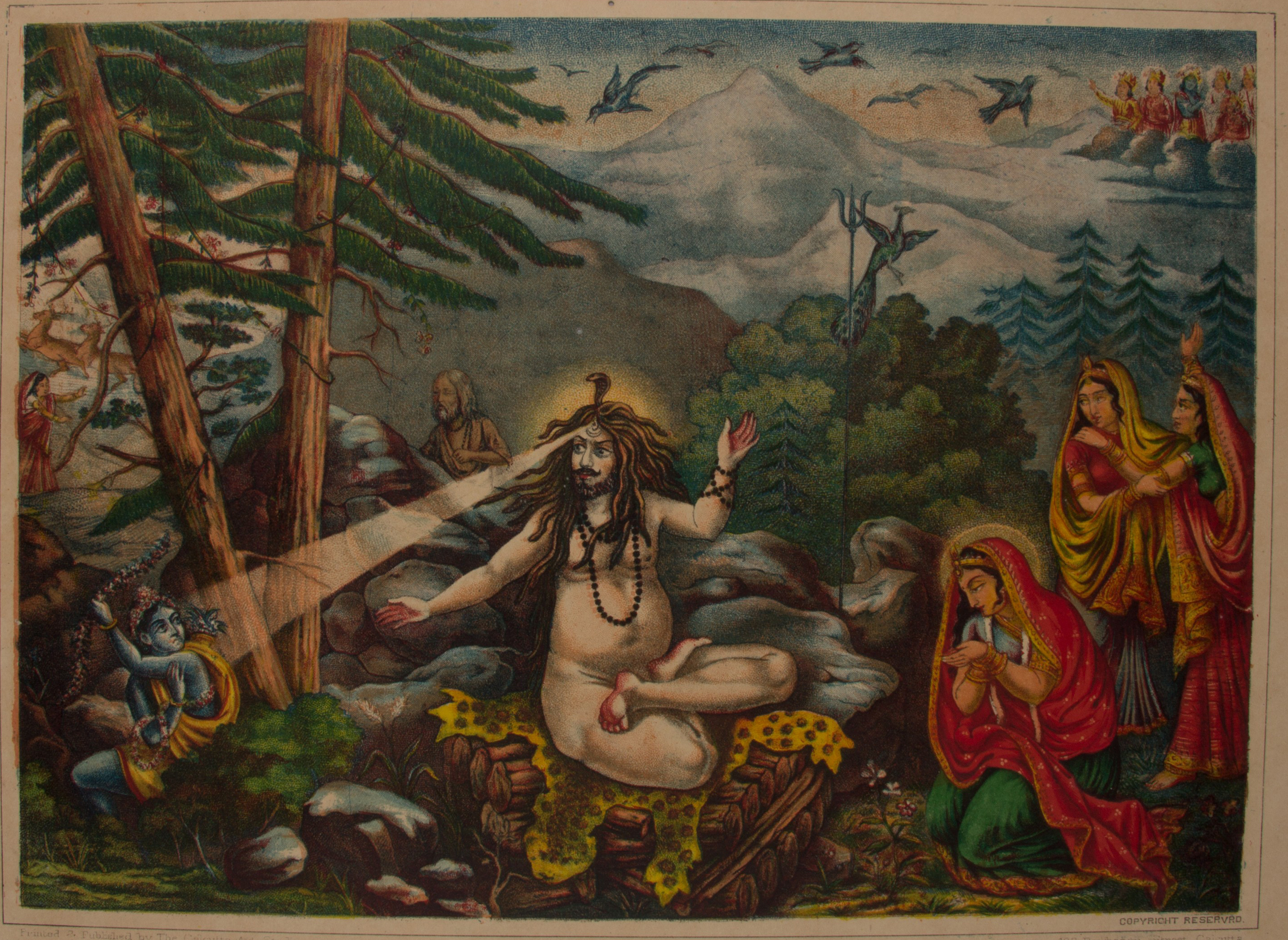 Date: 1890 Culture: India Medium: Lithograph Dimensions: Image: 9 1/2 × 13 1/4 in. (24.1 × 33.7 cm) Sheet: 12 × 16 in. (30.5 × 40.6 cm) Classification: Prints Credit Line: Purchase, Anonymous Gift, 2013 Accession Number: 2013.1 This artwork is not on displa